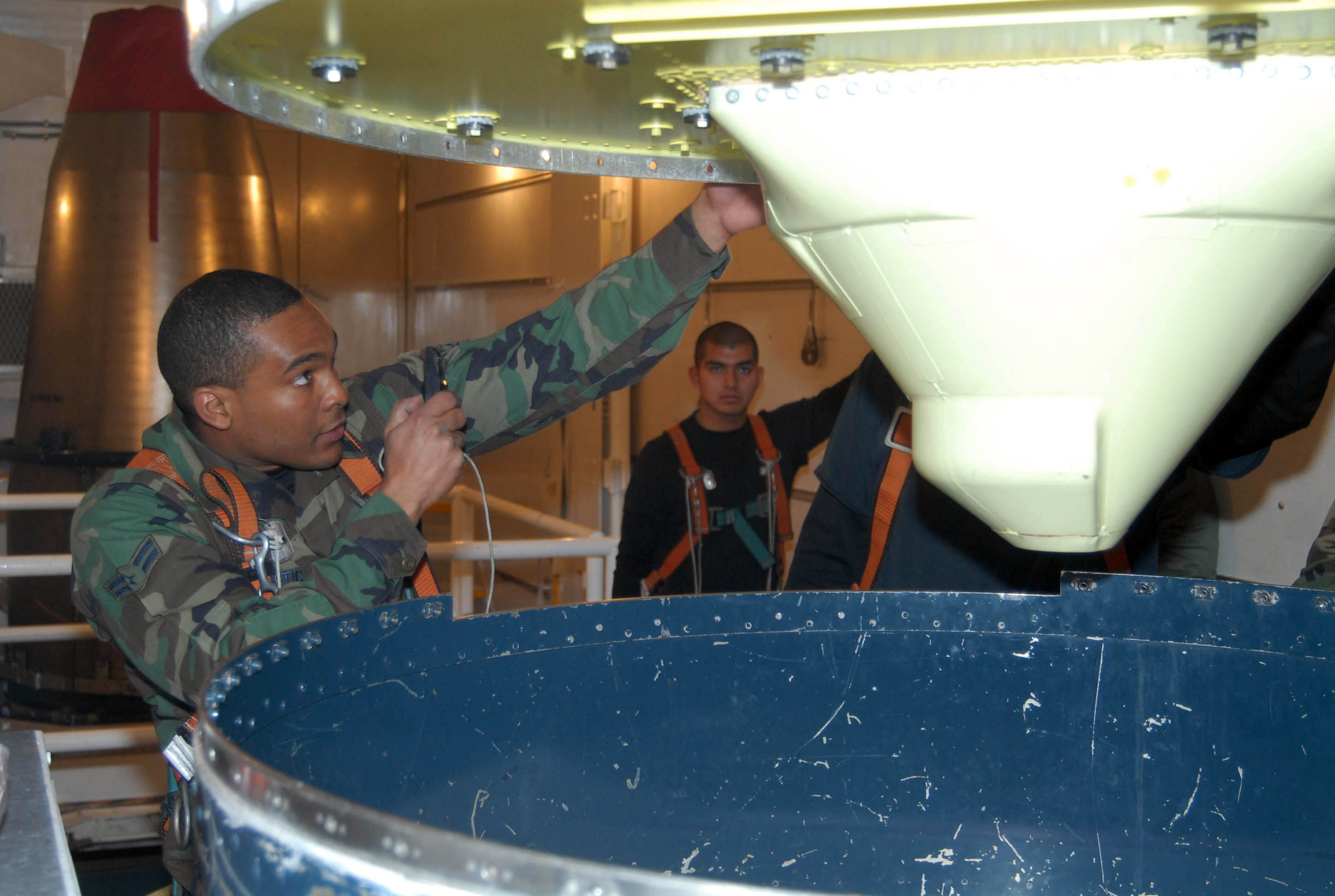 Missile Maintainer inspects missile guidance system of the LGM-30G Minuteman intercontinental ballistic missile (ICBM). In the background is the reentry system. Photo was taken at F.E. Warren AFB. Airman 1st Class Charles Bostic, 90th Missile Maintenance Squadron, inspects the bottom of the mating surface on the missile guidance system in a payload transporter